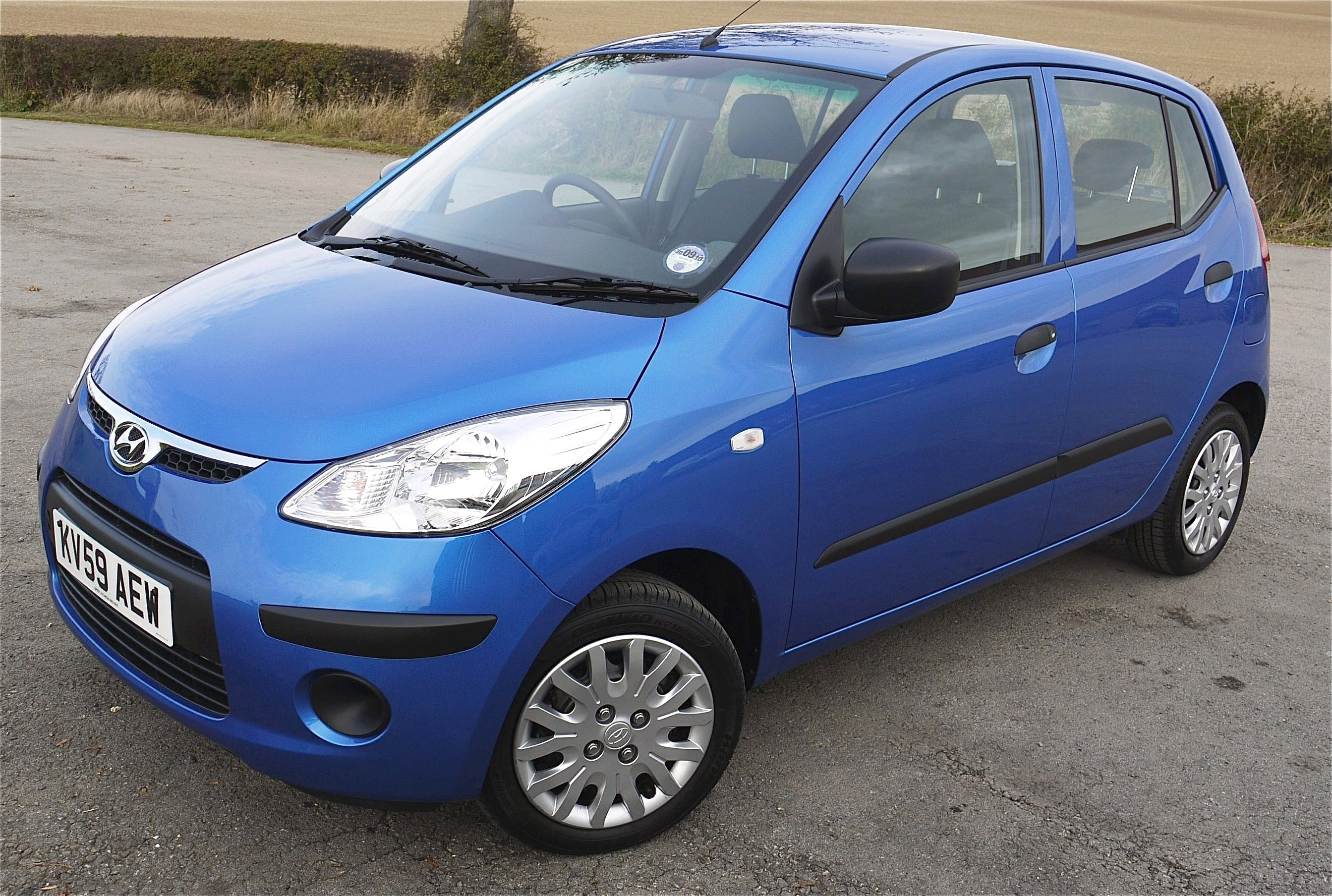 Another photo edit using software built into the Apple MacBook Pro. Panasonic G1 14-45 Lens